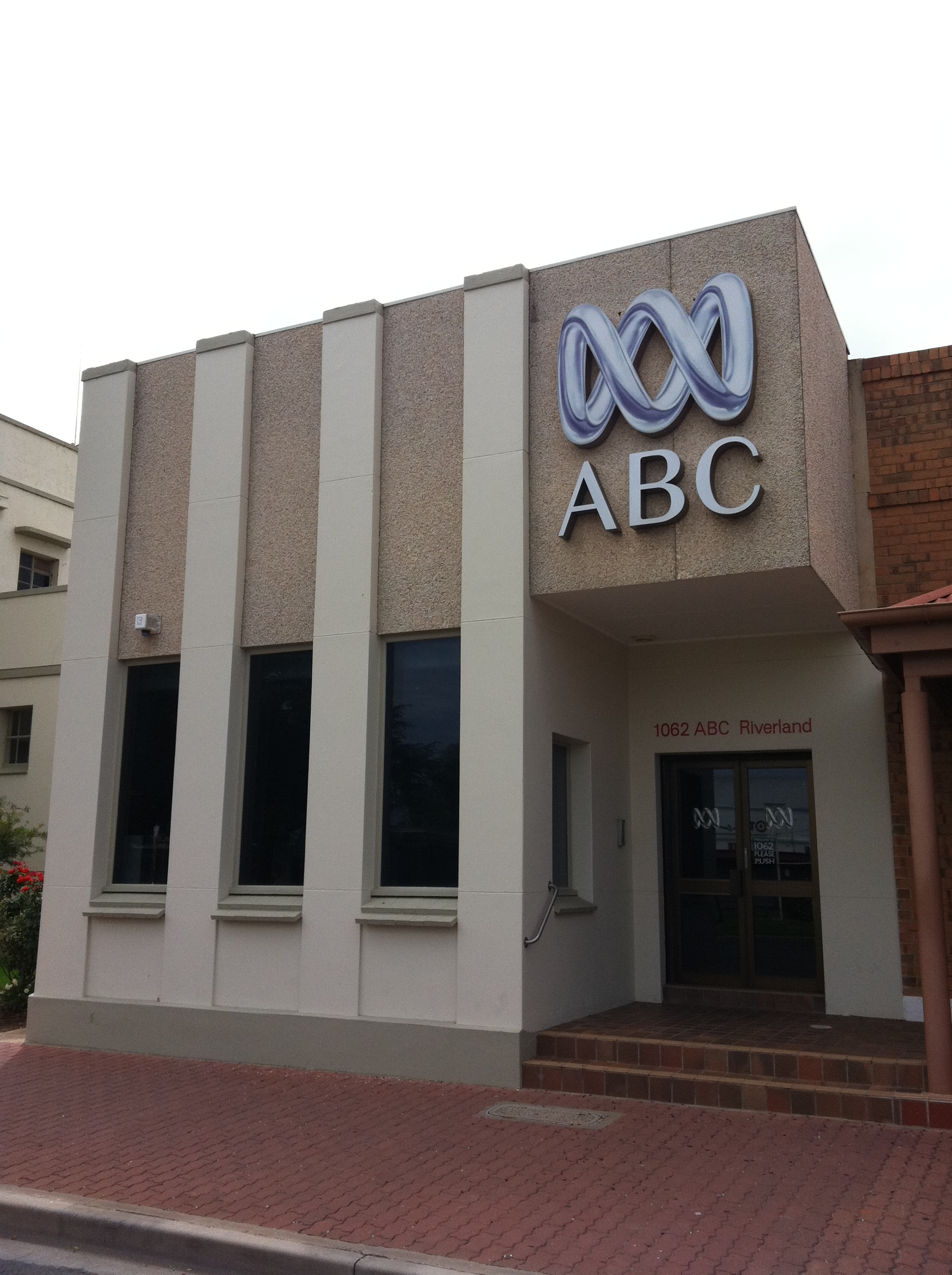 Exterior of ABC Riverland studios in Renmark